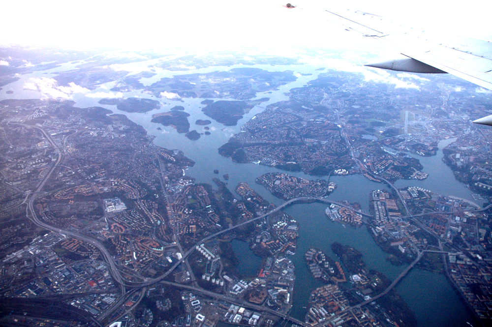 A view of Stockholm from an aircraft approaching Arlanda airport in January 2007. Photograph by Henryk Kotowski.